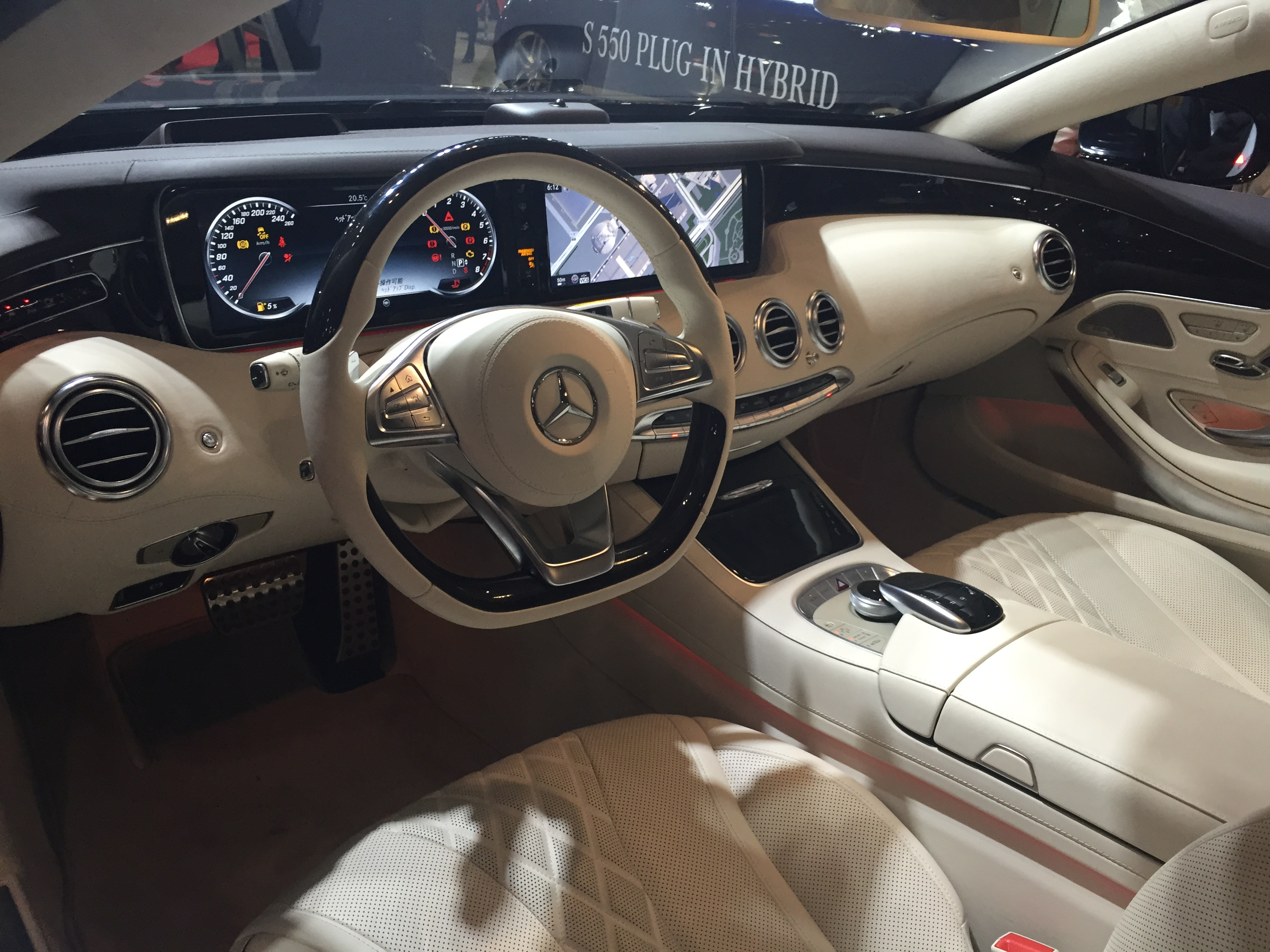 Mercedes-Benz S550 4Matic Coupé photographed at the Tokyo Auto Salon 2015.